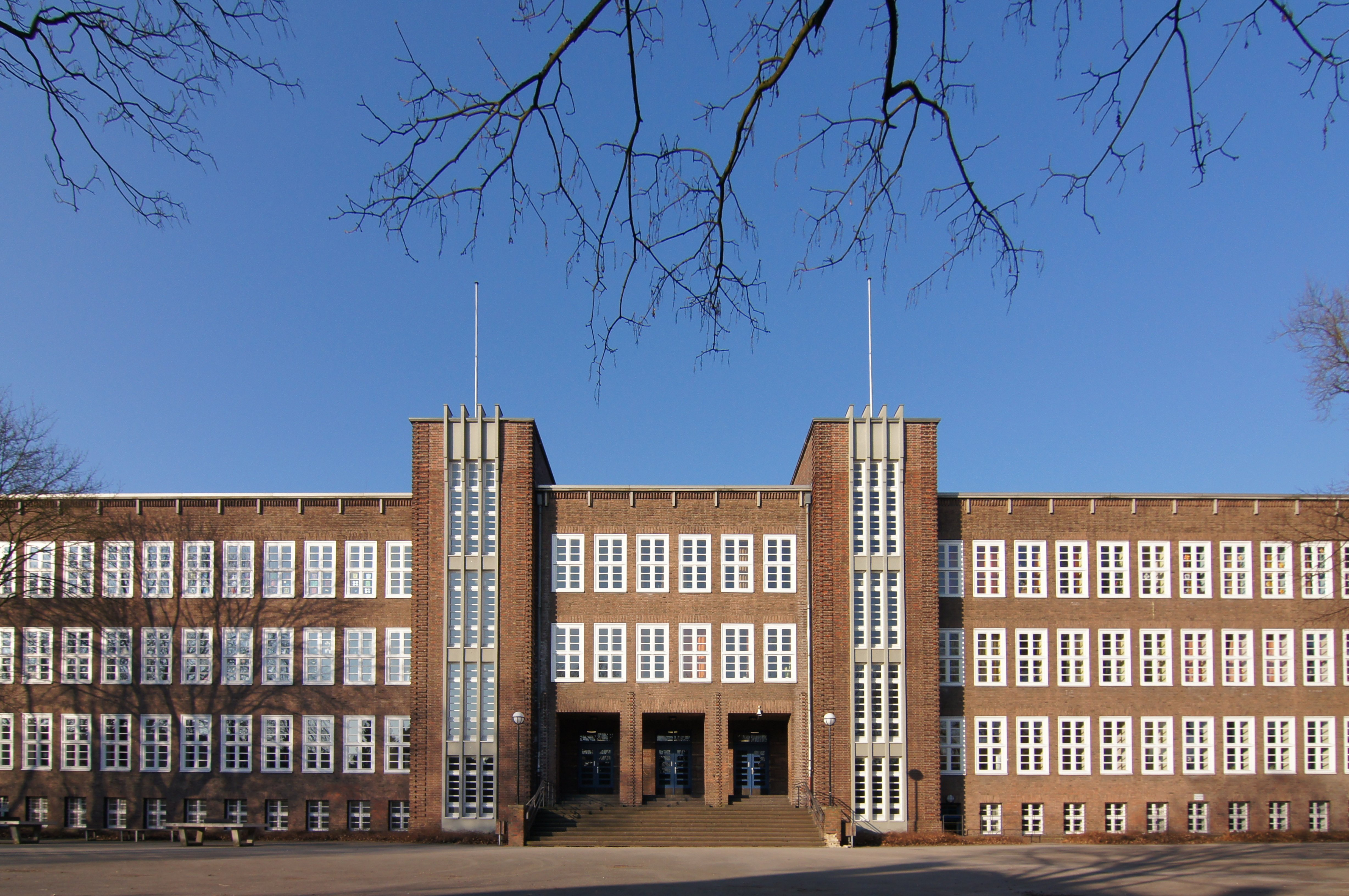 Germany, Westphalia, Münster, Geistschule, East. Architects: Karl Schirmeyer and Felix Sittel. Perspective corrected with GIMP.